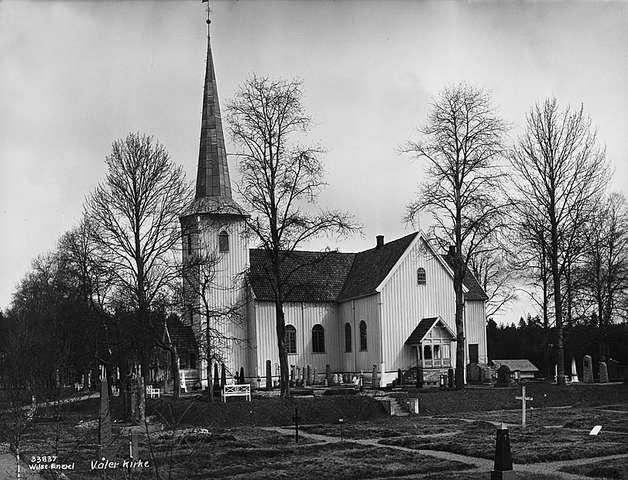 Våler church in Hedmark, Norway. (1805-2009)